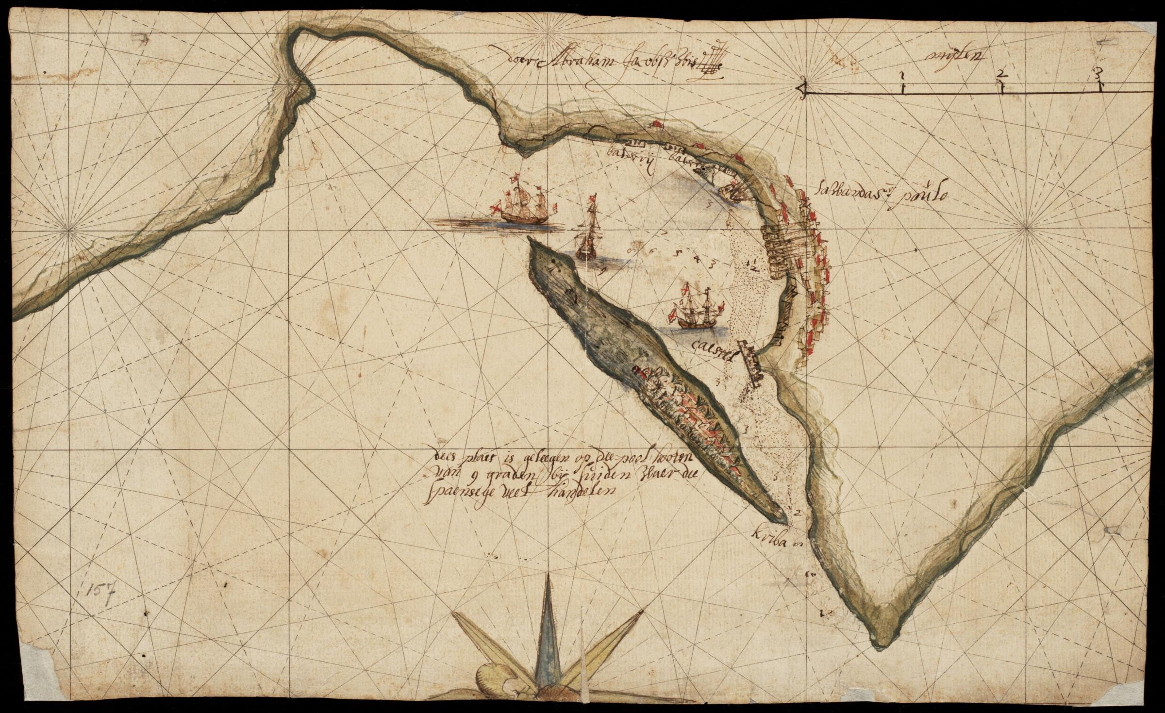 Map of the bay of Luanda. Title in the Leupe catalogue (NA): Teekening van de baai La Wanda St. Poulo (Loanda de St. Paulo) met het daarvoor liggende eiland. dees plaes is geleegen op de pool hoogten / van 9 graden bij suiden waer de / Spaensege veel handelen. Bottom left: 157 [in pencil]. The vessels in the bay are all flying the Spanish flag.